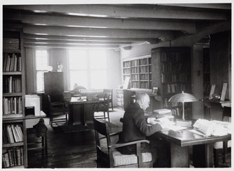 Interior NEHA Library, Amsterdam (The Netherlands), 1934